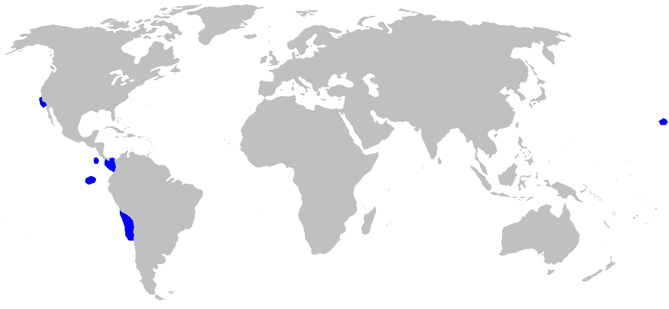 Distribution map for Centroscyllium nigrum